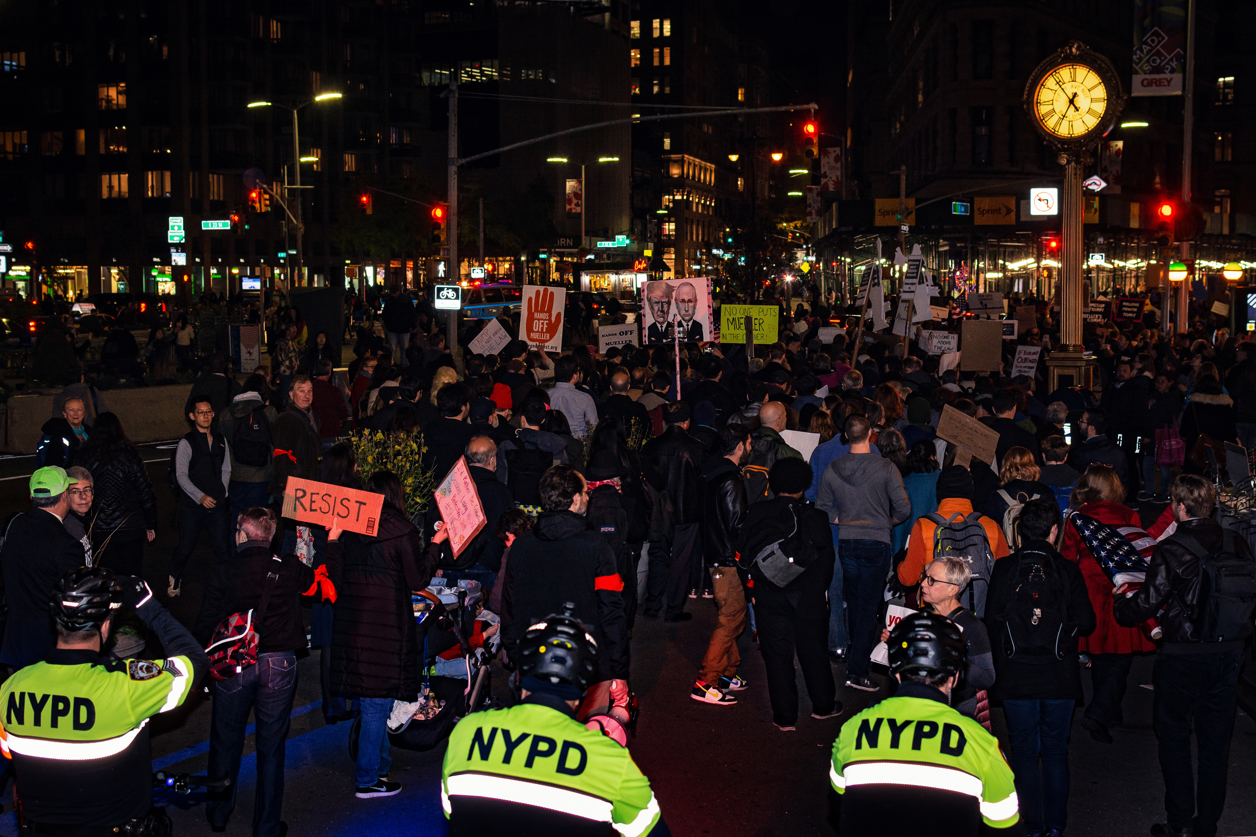 New Yorkers protest Donald Trump in a pro-Mueller march. Thursday, November 8th, 2018, NYC. pictured: New York City police watching Trump protesters holding signs at 5th Ave. and West 23rd St. in Manhattan.